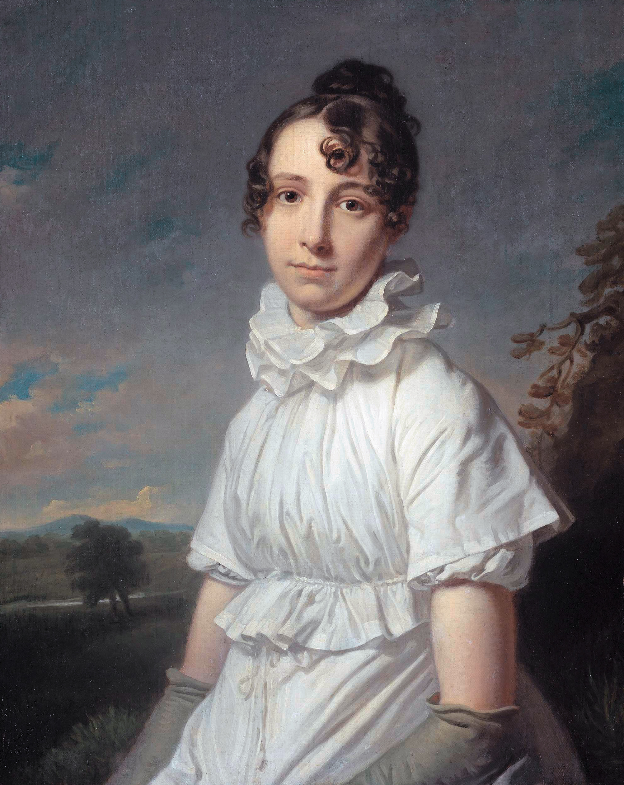 Emma Jane Hodges, daughter of the painter Charles Howard Hodges oil on canvas 77 x 62 cm